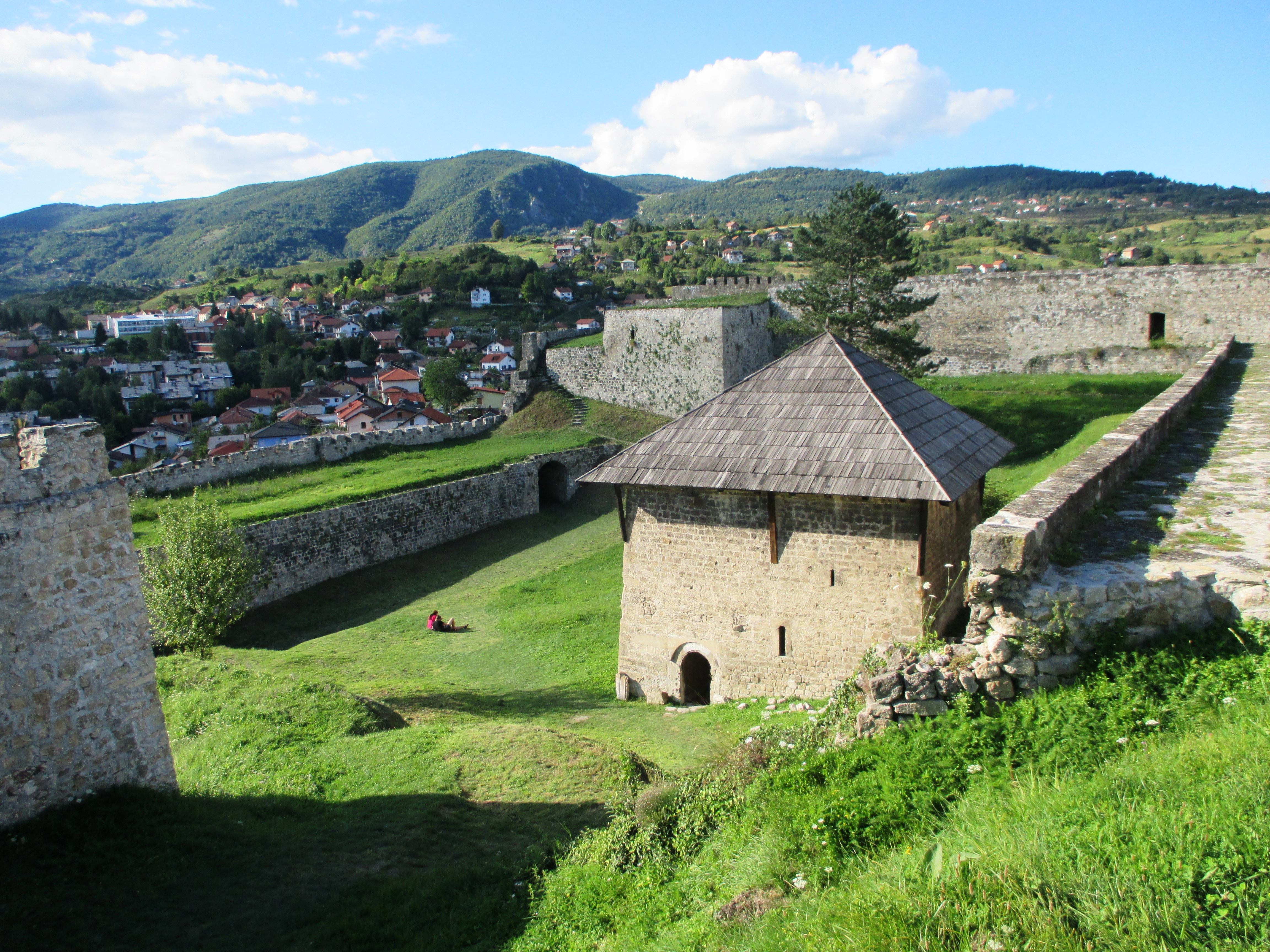 Jajce fortress inner yard